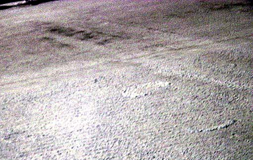 A near infra-red kite aerial photo taken on an outing with the Bath and Bristol Young Archaeologists' Club. The Via Julia is a scheduled monument which cuts across the modern Stoke Road on Clifton Down in Bristol, UK. The section shown cuts across an area that was marked out as a playing field. Being Spring, there was no visible parching.